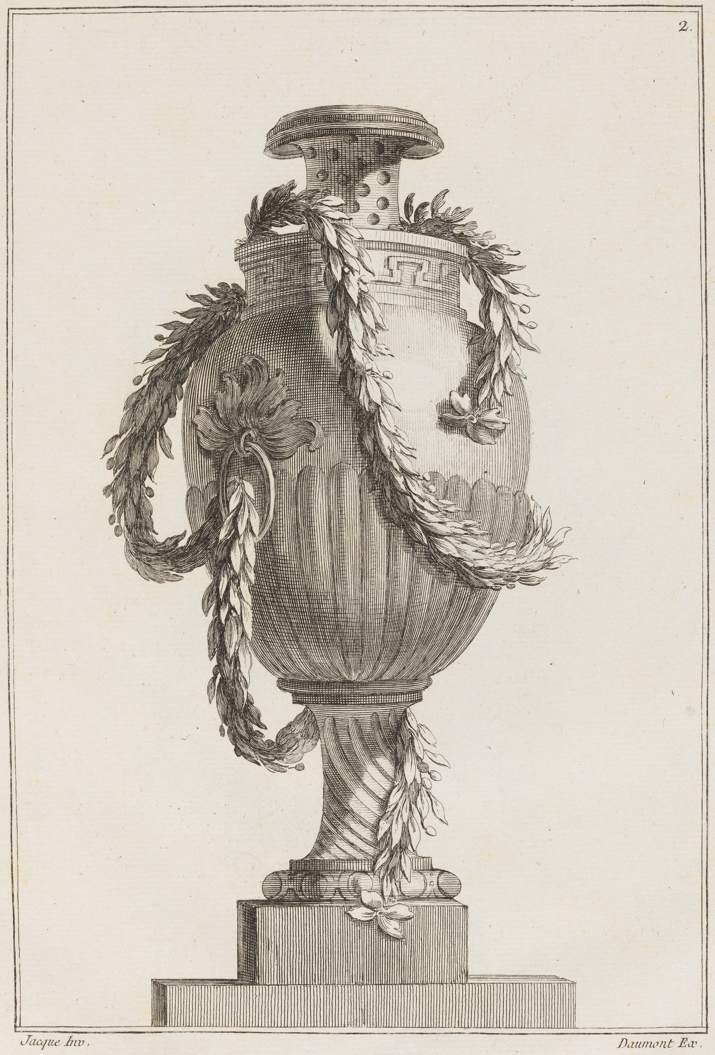 Album Ornament & Architecture; Albums